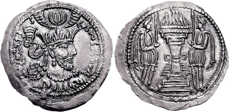 Bahram of Gandhara king of the Kushano-Sasanians Circa CE 350-365. AR Drachm (3.91 g, 9h). Crowned bust right / Fire altar with attendants and ribbons.